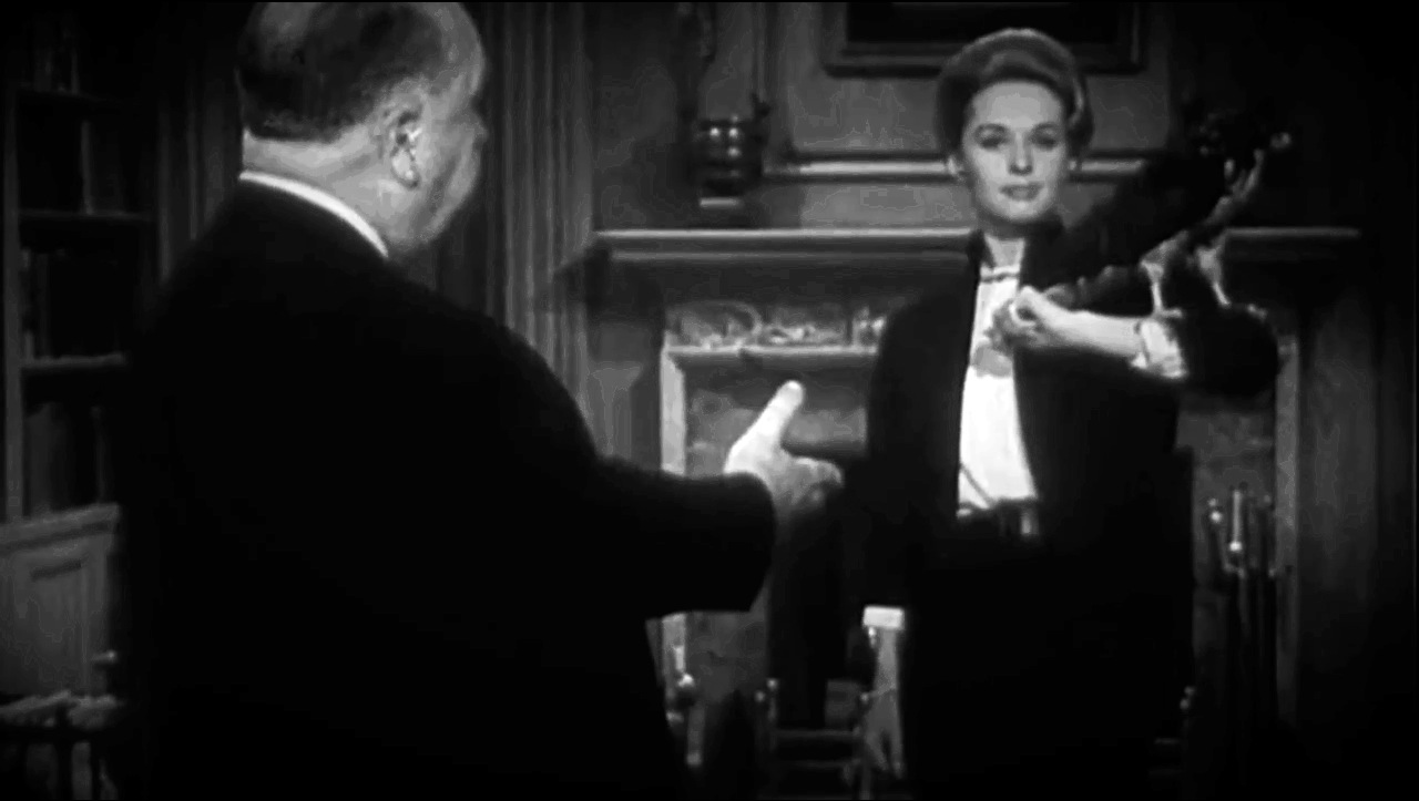 Tippi Hedren and Alfred Hitchcock in "The Birds" teaser.